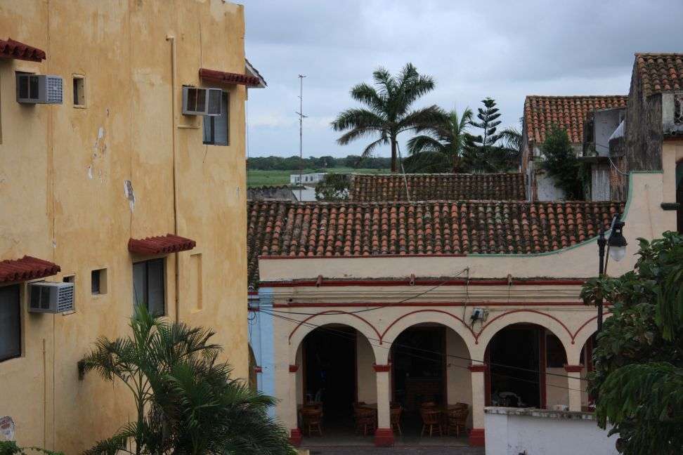 Tlacotalpan view from a hotel roof